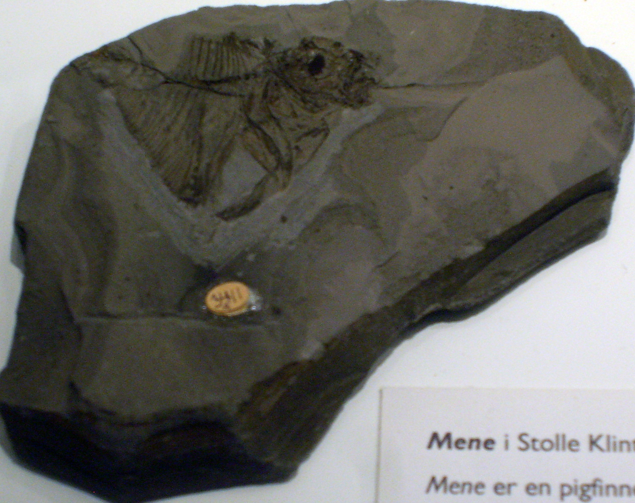 Mene fossil at the Geological Museum, Copenhagen.